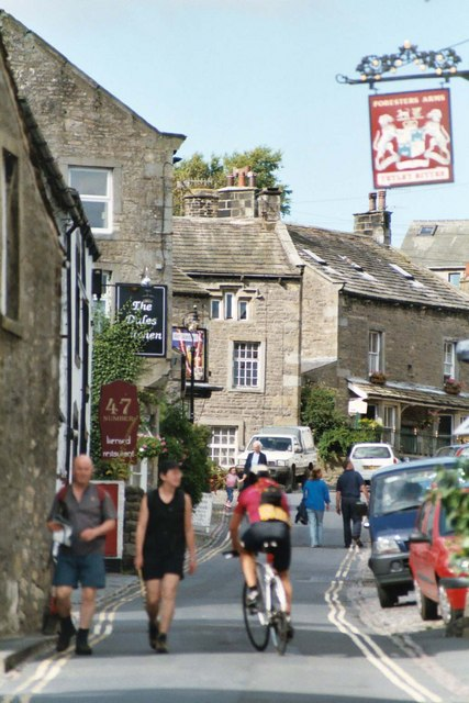 Main Street, Grassington, Yorkshire. The attractive small town of Grassington is an important Dales centre for walking, cycling, and - as the pub signs show - for the drinking of beer.